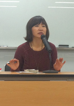 Eun Hee-kyung, lecturing at LTI Korea.